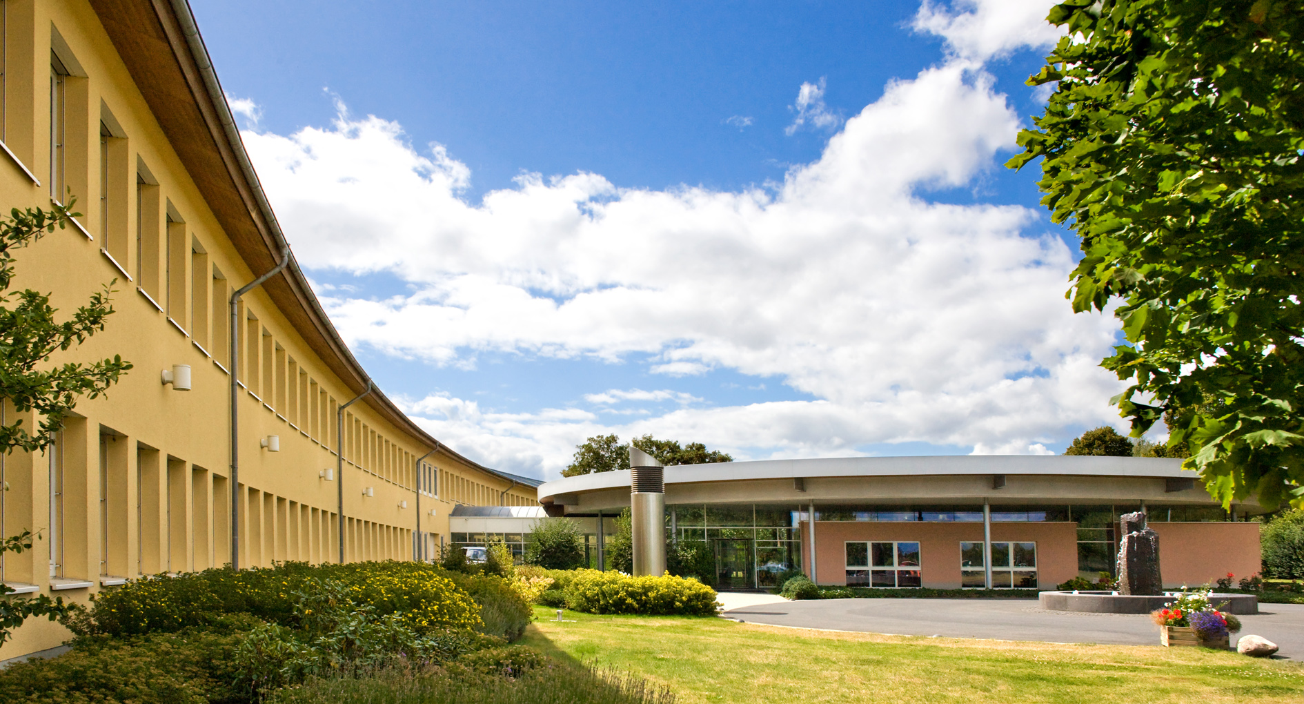 Headquarters of Griesson – de Beukelaer in Polch, Germany